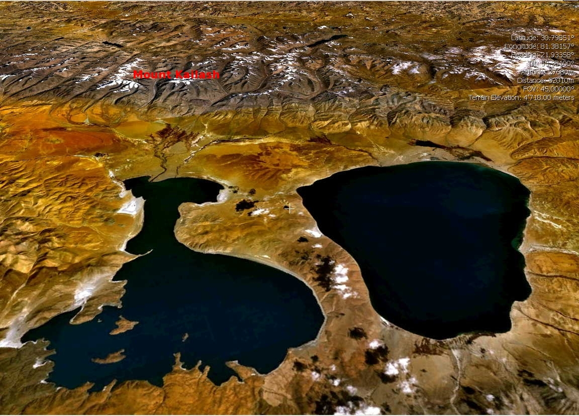 Landsat7 Satellite view of the Mount Kailash, draped over SRTM DEM with Lake Manasarovar (right) and Lake Rakshastal (left) in the foreground. (Image made with the visualisation software NASA World Wind (Open Source)) Please move UP caption Mount Kailash Image:Mt Kailash sat.jpg Please move UP caption Mount Kailash to enable mount kailash peak visible.Thanks.